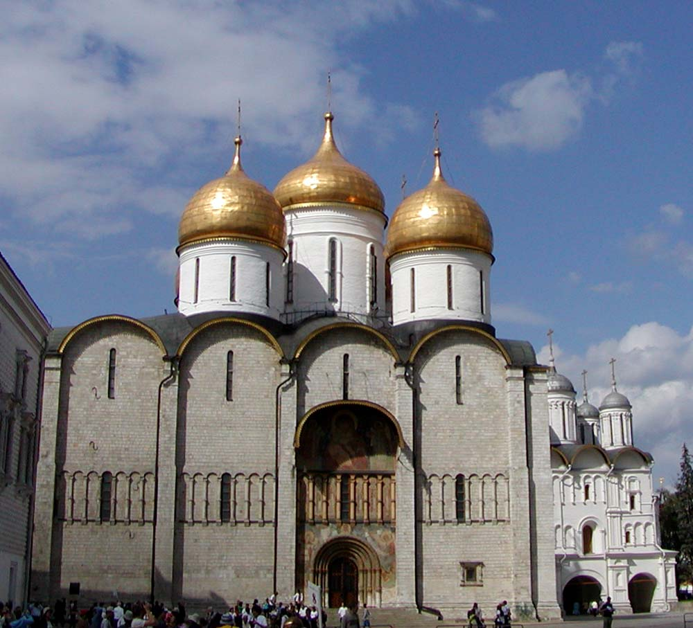 Photo of Dormition Cathedral in Moscow Kremlin